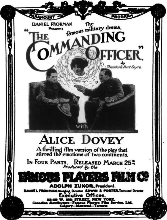 Advertisement for the American drama film The Commanding Officer (1915) with Alice Dovey and Donald Crisp, on page 26 of the March 19, 1915 Variety.